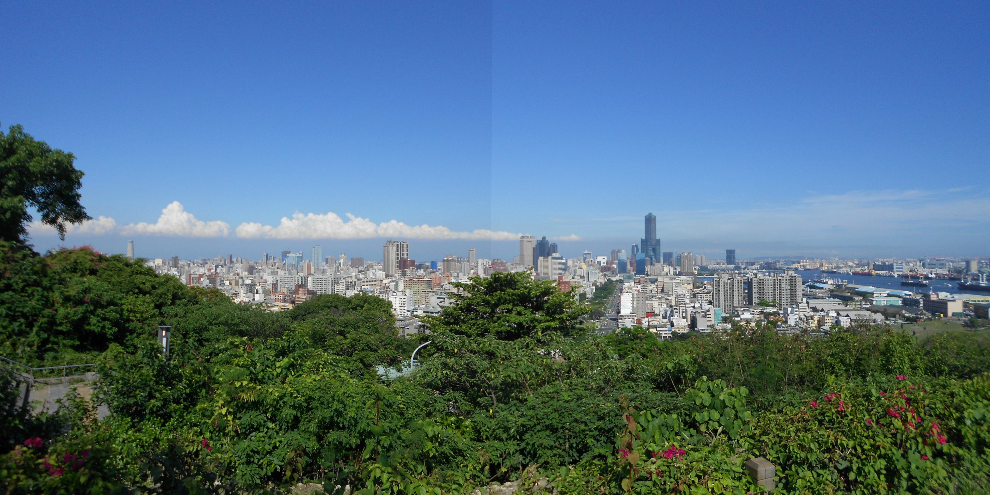 The skyline of Kaohsiung City.